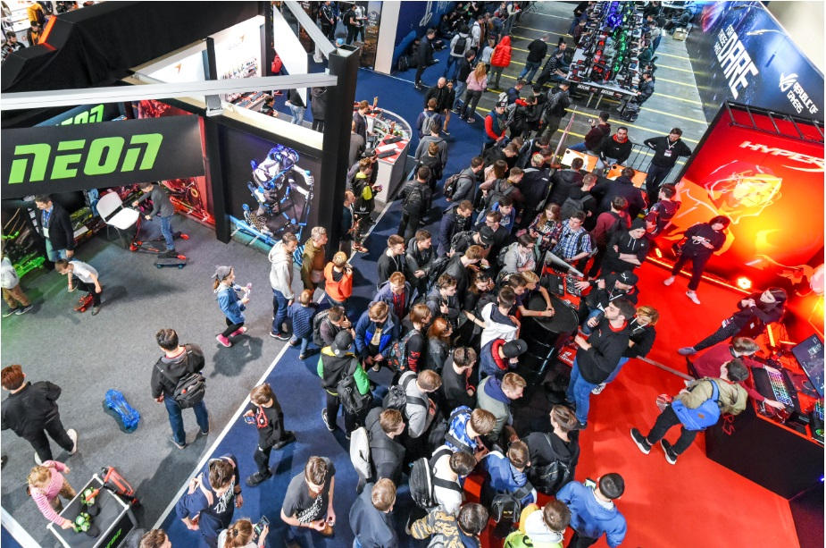 CEE 2019 Spring